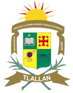 Coat of arms of Tala, Jalisco